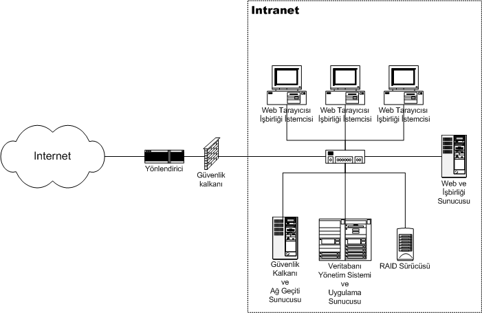 This file depicts an intranet schematically.